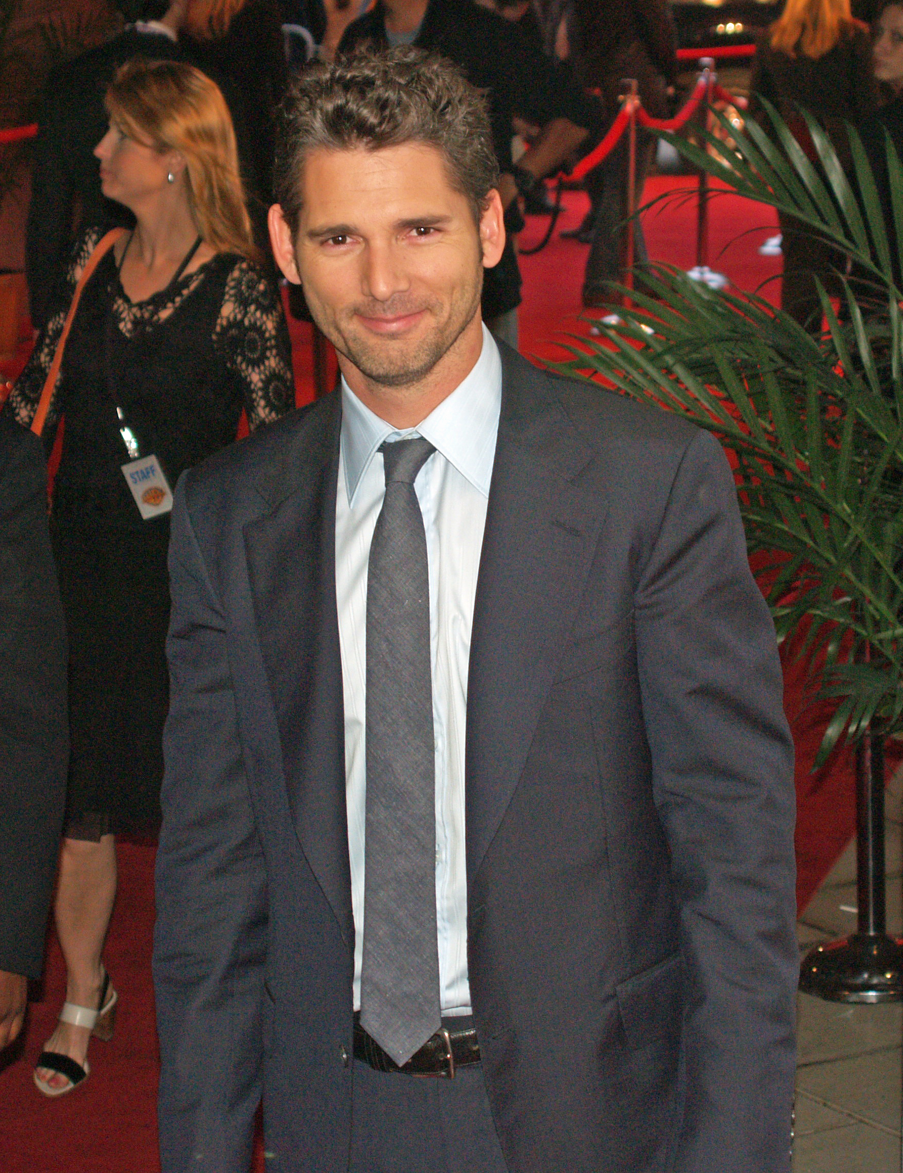 Eric Bana by David Shankbone